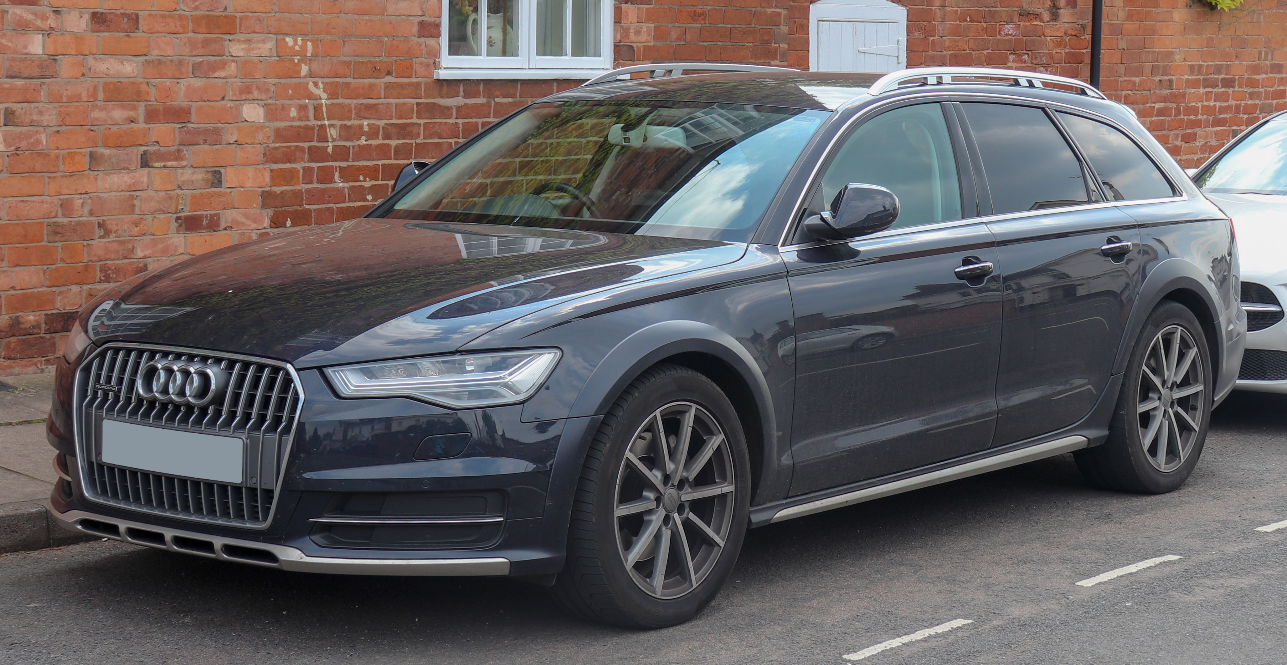 2017 Audi A6 Allroad Sport TDi Quattro 3.0 Front Taken in Leamington Spa